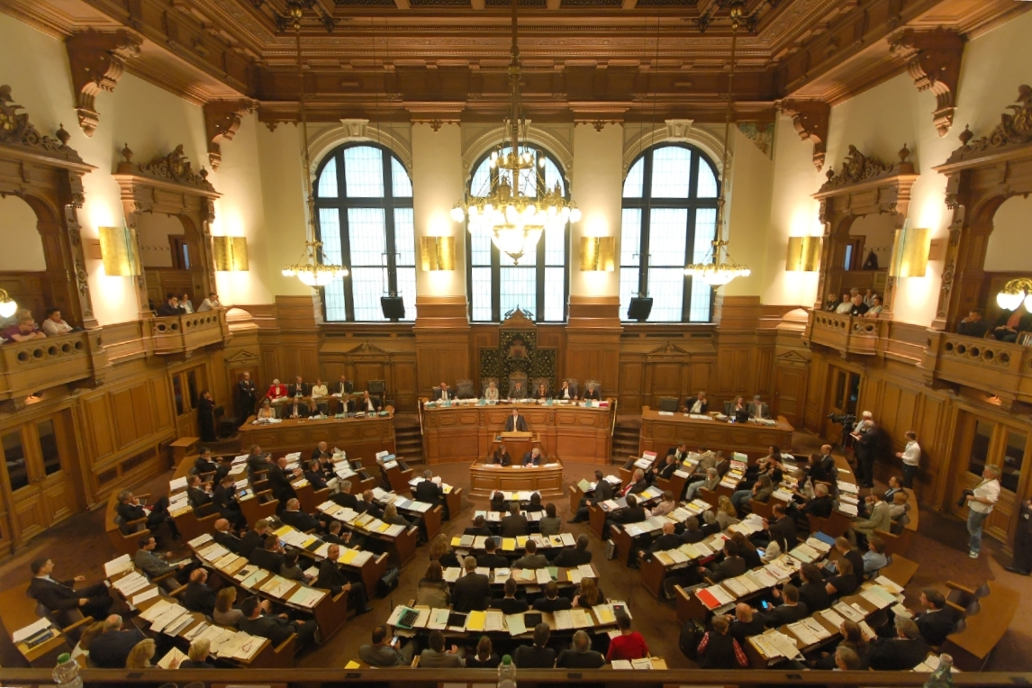 Pictures